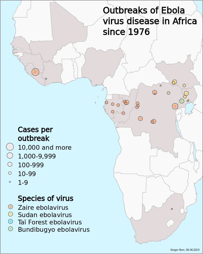 Cases of Ebola between 1976 and 2018 in Africa